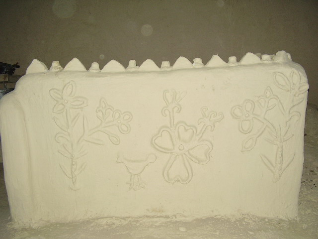 a wall made of mud in village